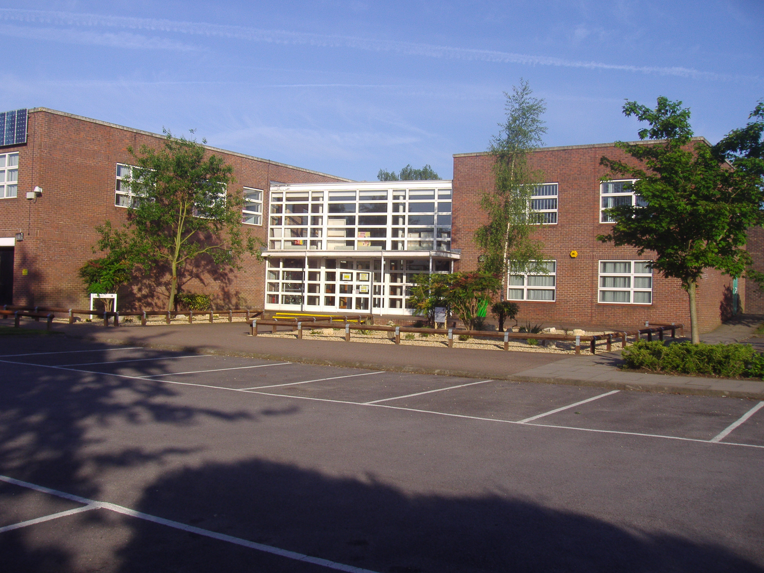 Front of JHGS